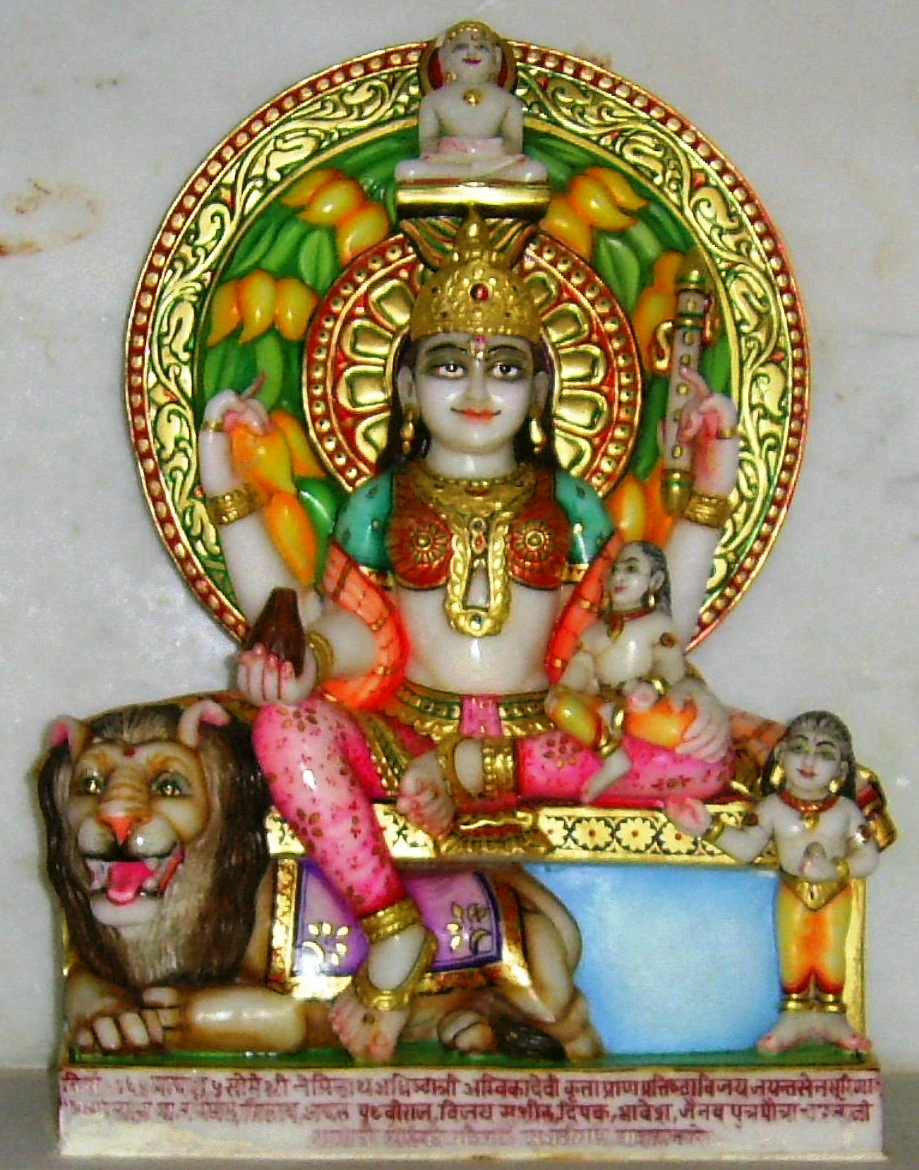 The Principle Jain Deity of Shri Neminath Adhishthayaka Nagotra Solanki Gotria Kuldevi Shri Ambikadevi Jinalaya, Santhu, Bagra (Marwar], Jalore, Rajasthan, India.